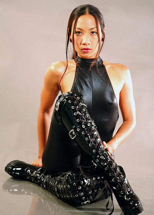 Boot Fetishism - Photo by Glenn Francis of